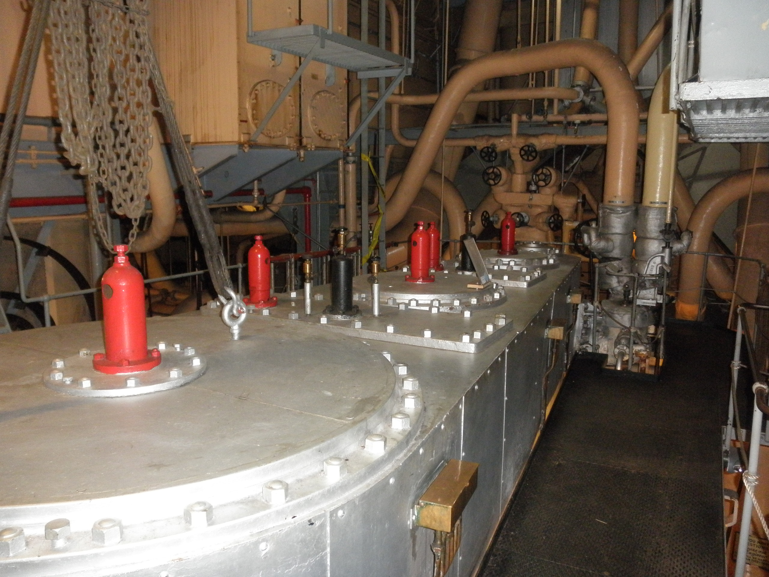 SS Jeremiah O'Brien triple expansion steam engine